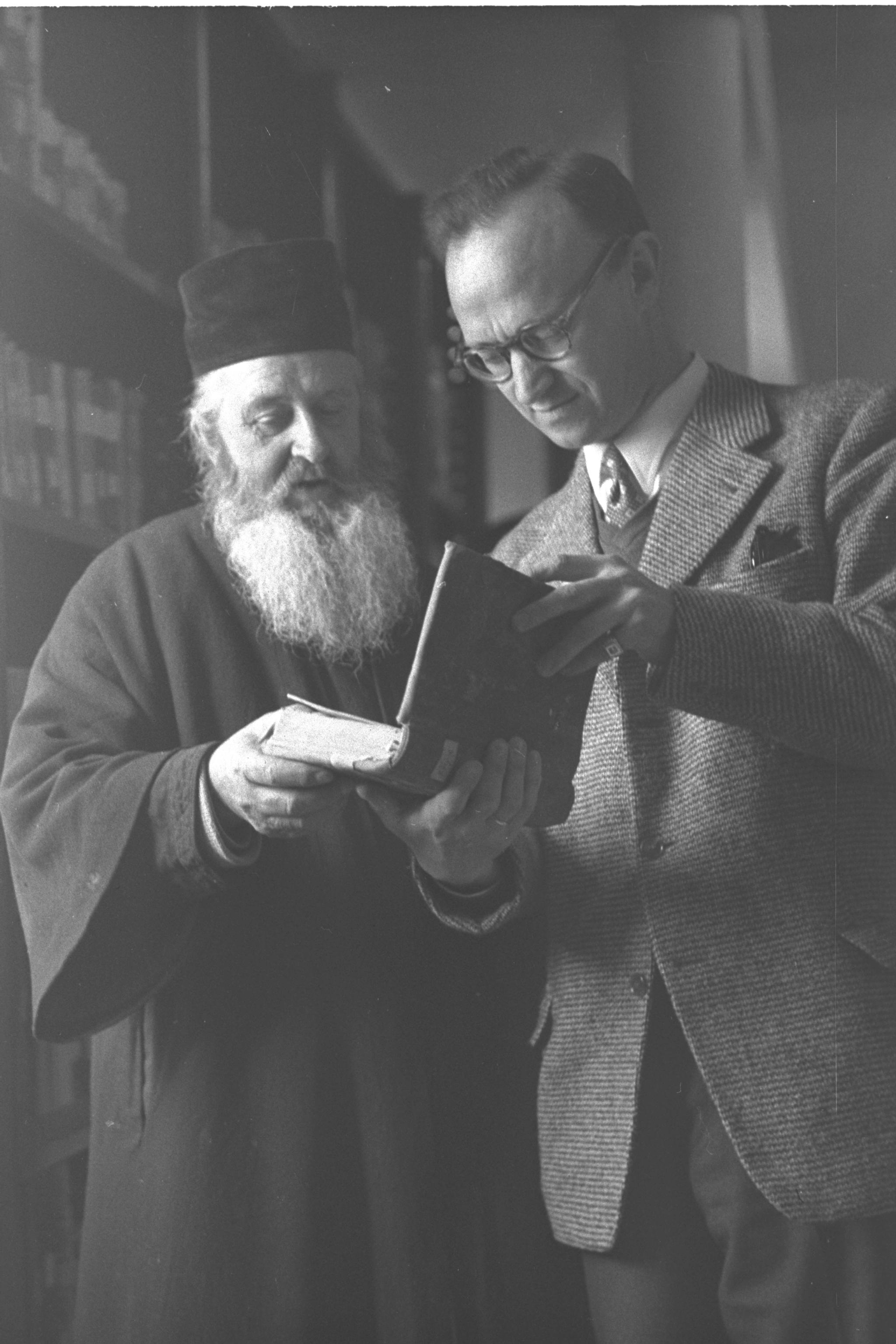 Archimandrite Christophoros and UNESCO representative Gérard Garitte examine a book at the Santa Caterina Monastery in Sinai. 1957.